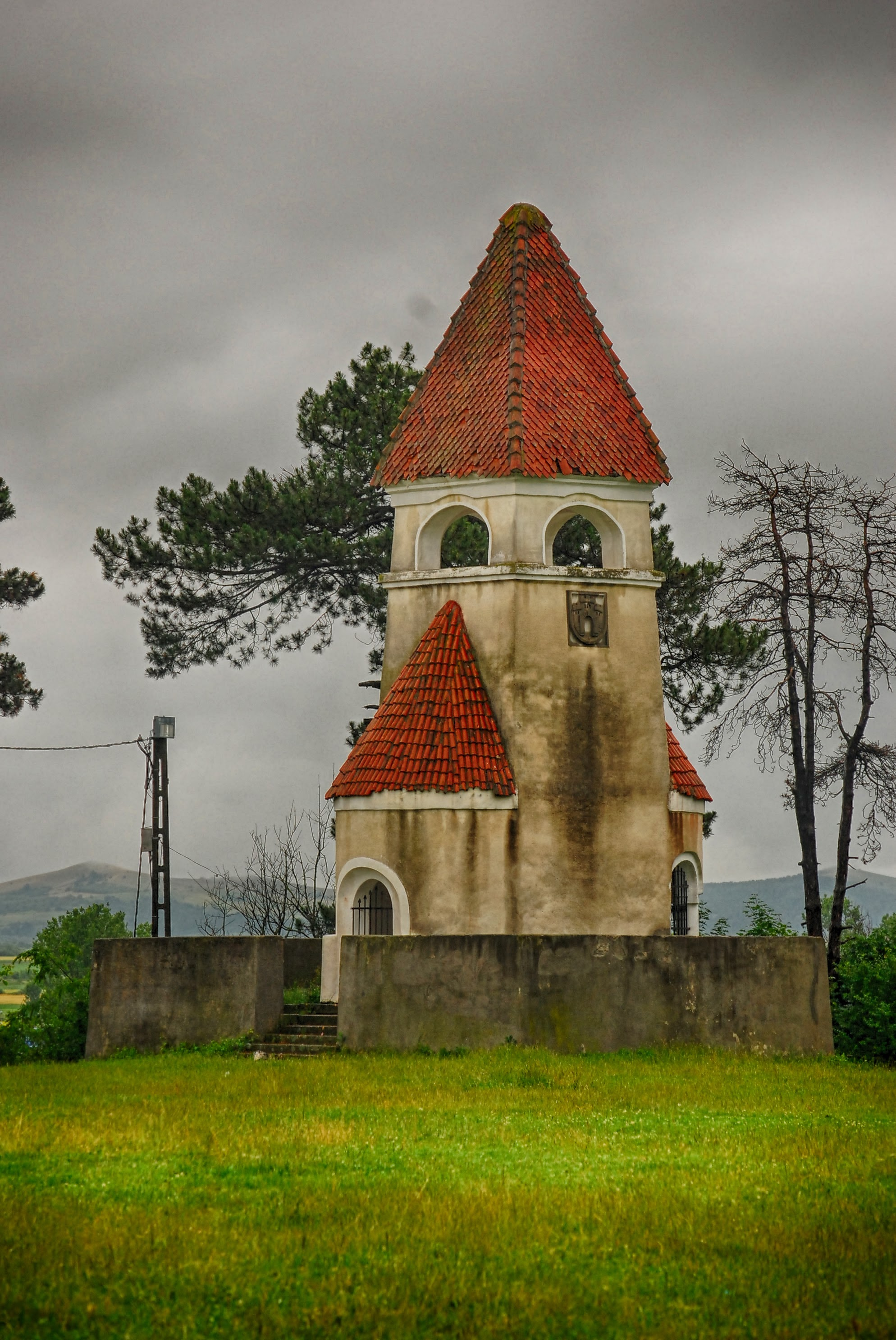 Monument to the Saxon students fallen in 1612 in Feldioara, Brașov County, RomaniaRomână: Monumentul studenților sași căzuți în luptă în 1612 din Feldioara, județul Brașov, România